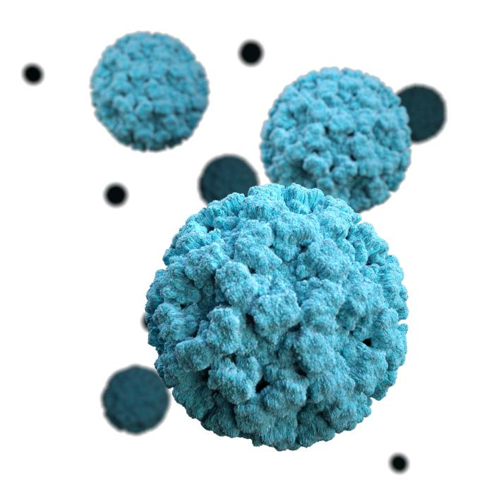 This illustration provides a 3D graphical representation of a number of Norovirus virions set against a white background. Noroviruses belong to the genus Norovirus, and the family Caliciviridae. They are a group of related, single-stranded RNA, nonenveloped viruses that cause acute gastroenteritis in humans. Norovirus is the official genus name for the group of viruses provisionally described as, “Norwalk-like viruses” (NLV).